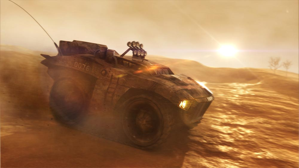 work in progress